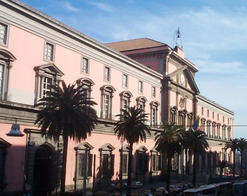 Private photo taken and uploaded by user Jeffmatt 08:21, 25 September 2006 (UTC). No rights claimed.